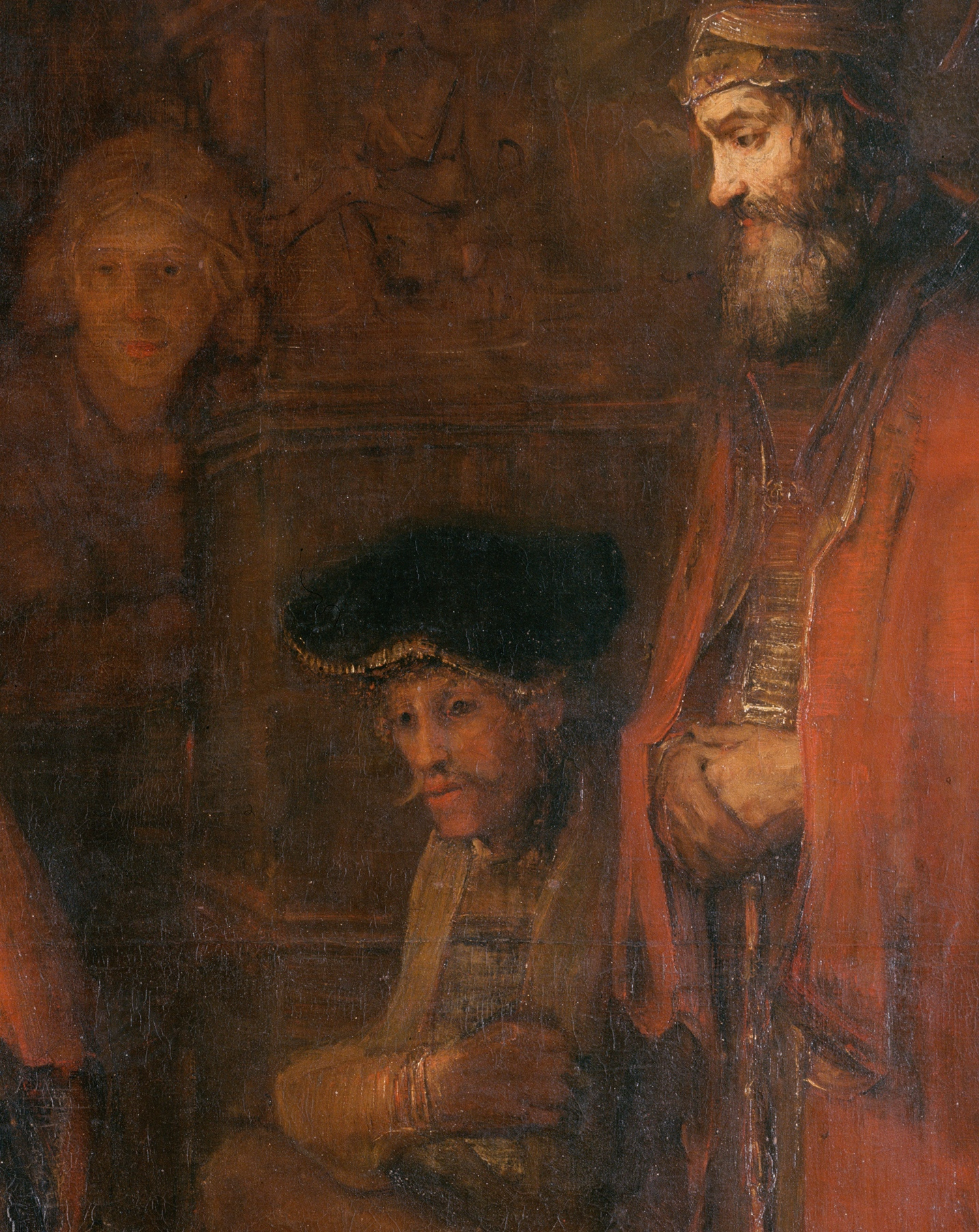 REMBRANDT Harmenszoon van Rijn The Return of the Prodigal Son (detail) c. 1669. Oil on canvas, The Hermitage, St. Petersburg